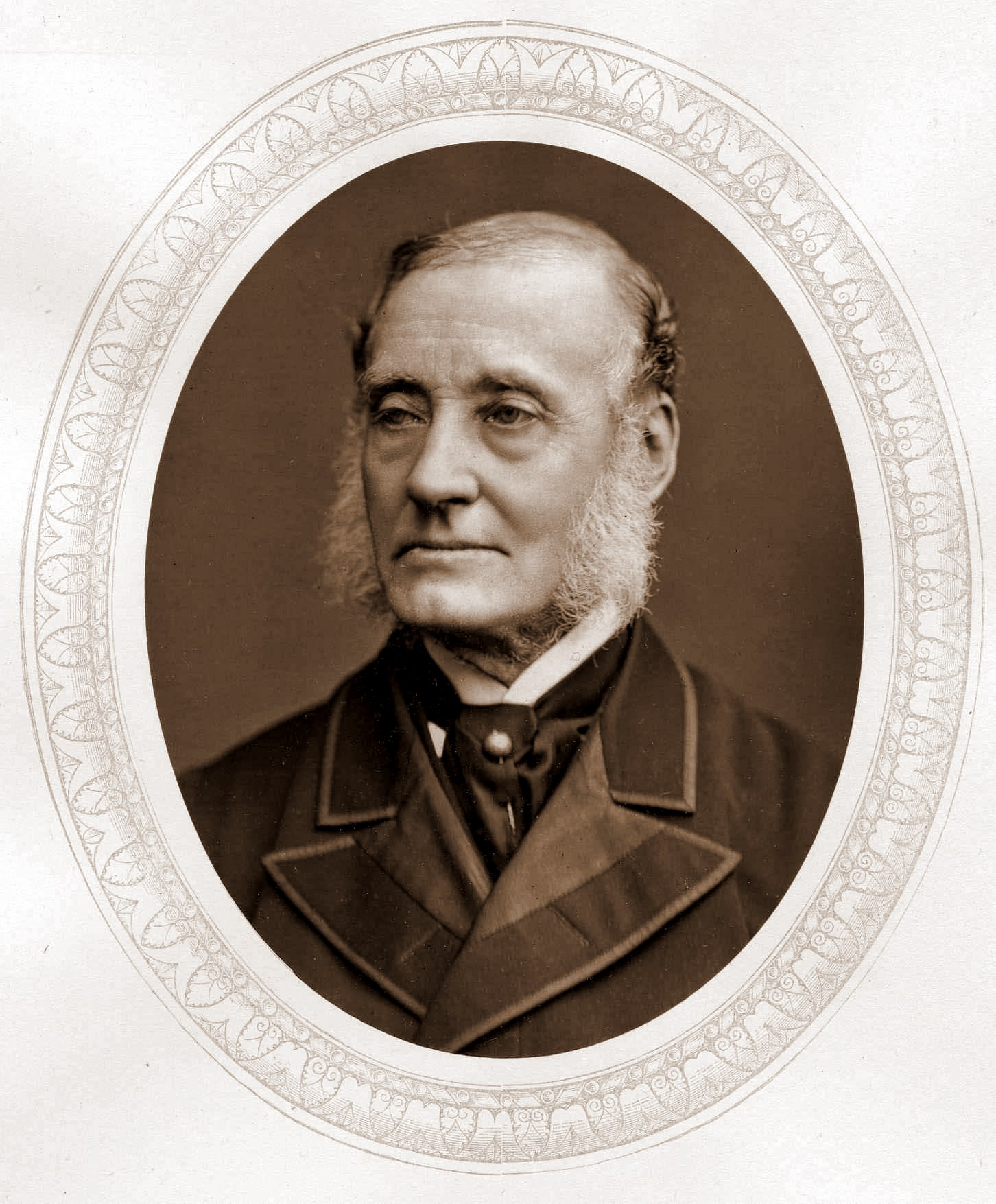 Woodburytype of Rutherford Alcock